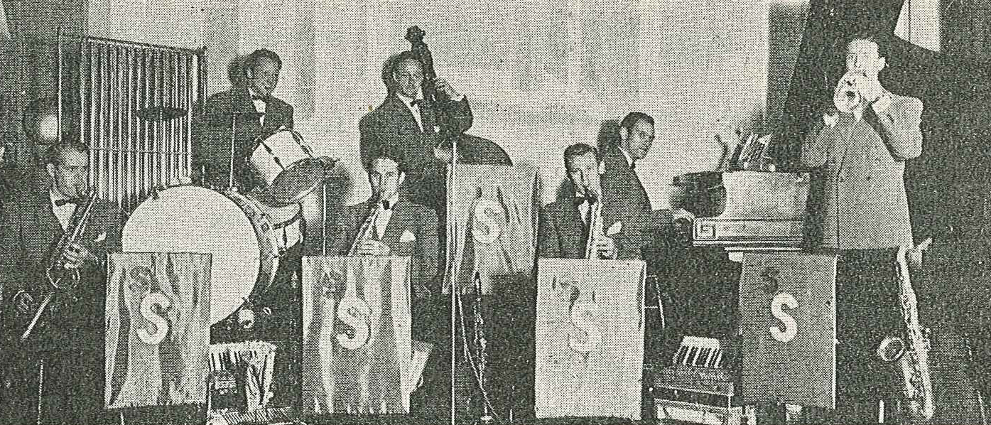 Swedish bandleader Sven Sjöholm and his orchestra at the ballroom Wauxhall in Gothenburg.